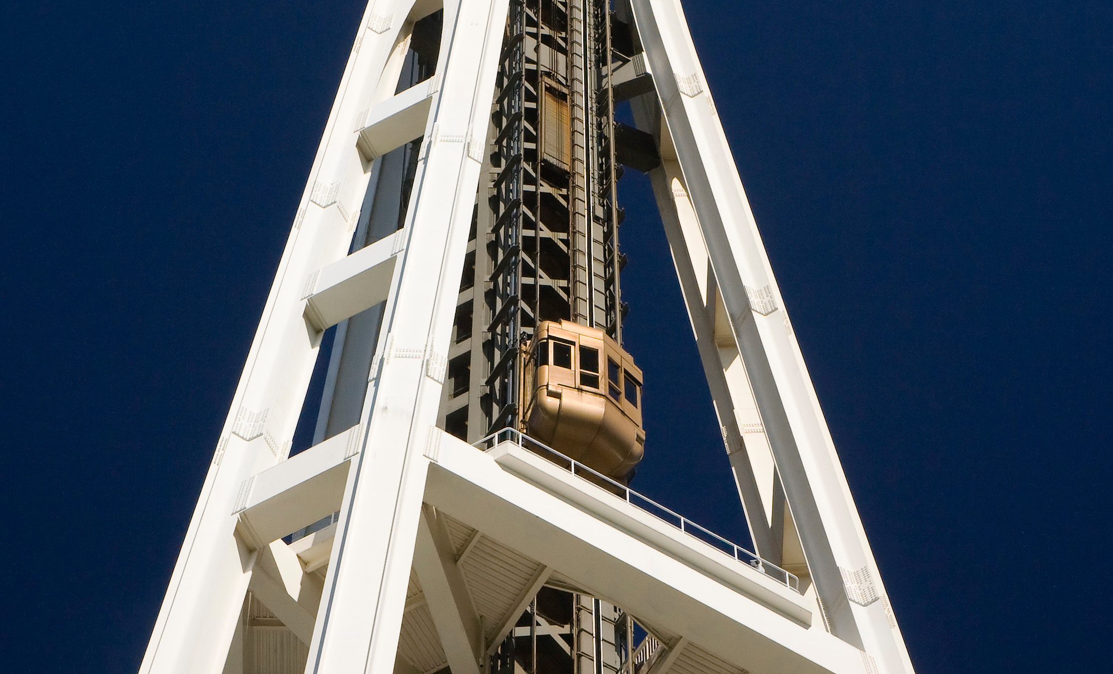 Lift of the Space needle in Seattle, WA